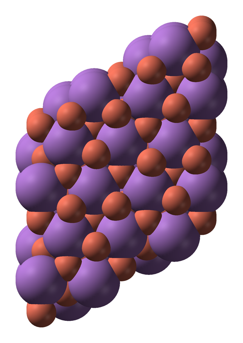 Space-filling model of part of the crystal structure of domeykite, copper(I) arsenide, Cu3As. Colour code: Copper, Cu: orange-pink Arsenic, As: lilac Crystal structure by X-ray diffraction from Z. Kristallogr., Kristallgeom., Kristallphys., Kristallchem. (1965) 122, 399-406. Model constructed in CrystalMaker 8.1. Image generated in Accelrys DS Visualizer.